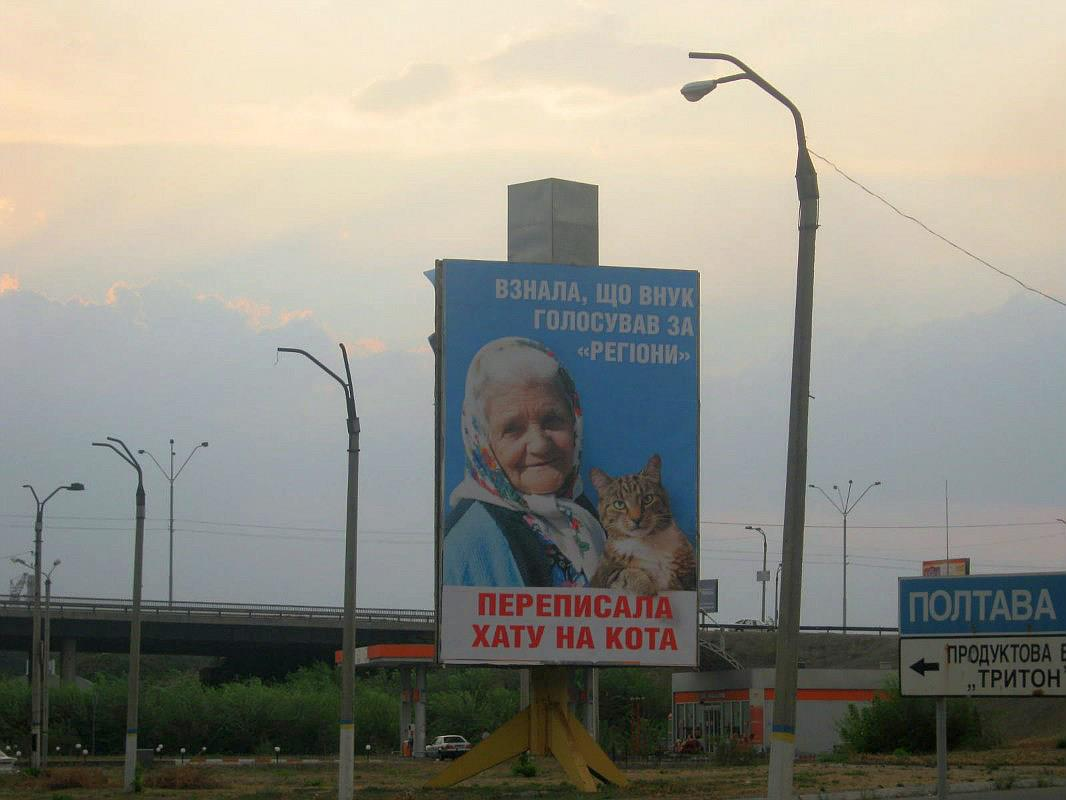 “Grandma and a Cat” billboard by Maxim Golosnoy